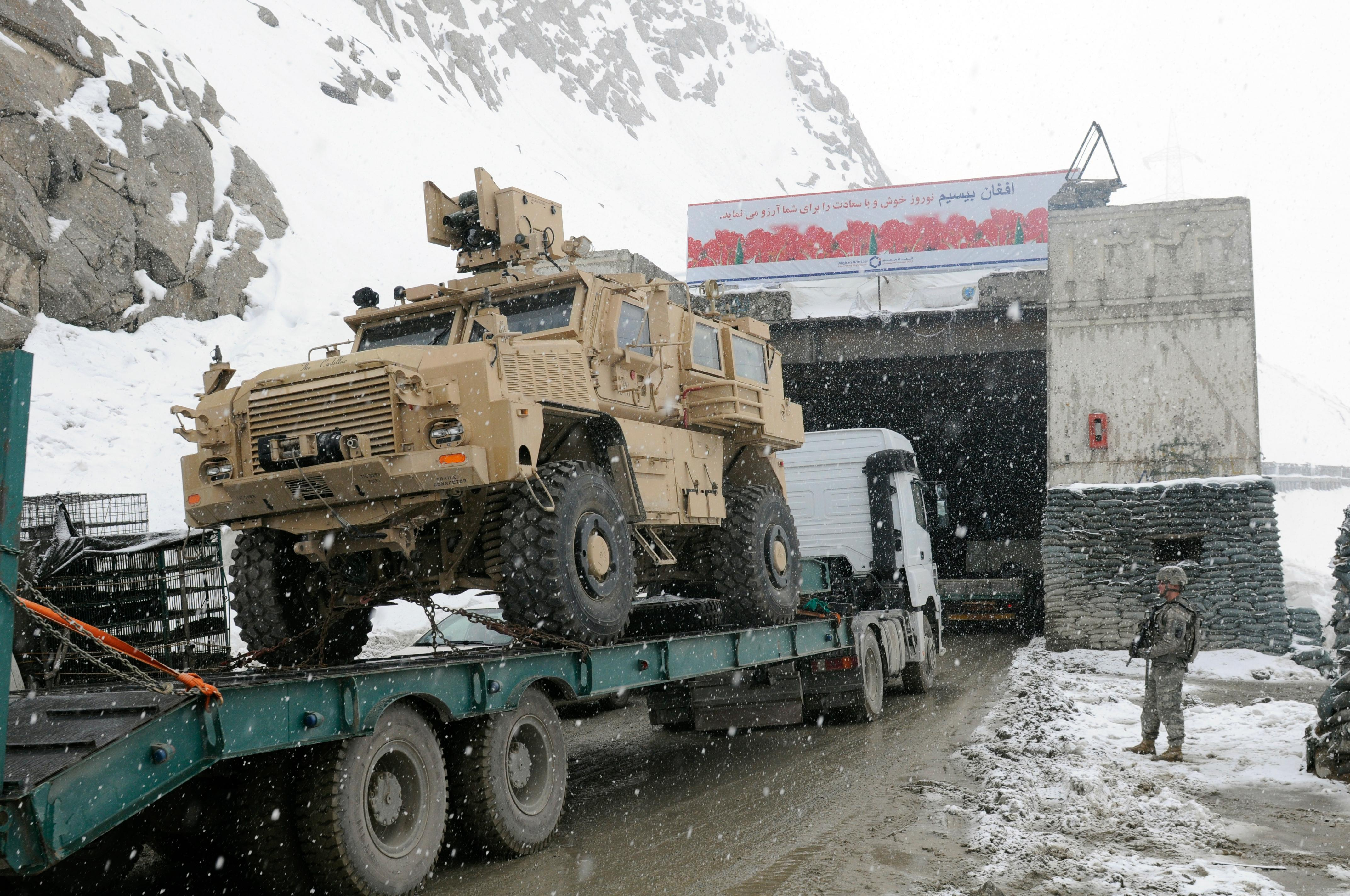 Soldiers of the 101st Sustainment Brigade conducted a convoy through the Salang Pass here. The pass navigates through the a winding road and tunnel through some of the harshest terrain in Afghanistan. Nearly two miles above sea level, the Salang Pass connects the Parwan and Baghlan provinces and serves as one of the routes to move cargo and supplies from the main logistics hub at Bagram Air Field, located in eastern Afghanistan, to Regional Command North. (Photo ID: 384437)